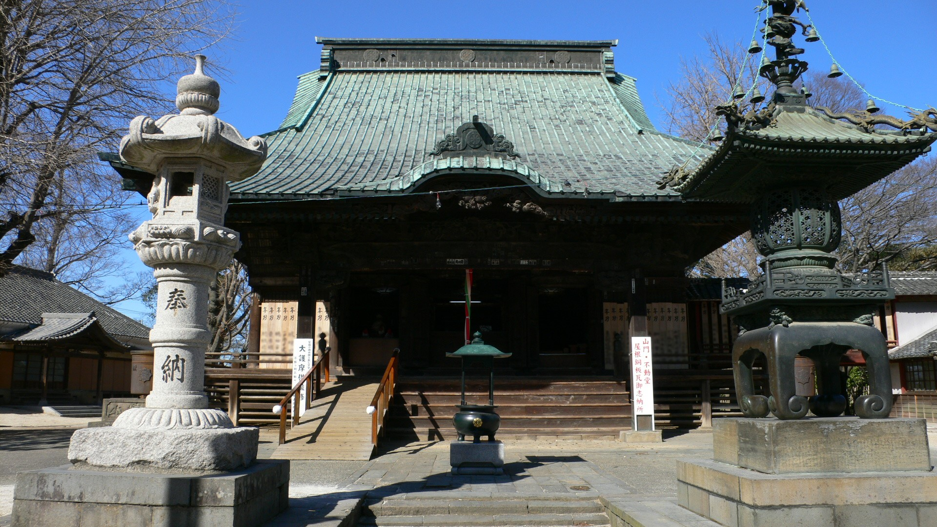 Sōgan-ji temple in Kazo, Saitama, Japan.